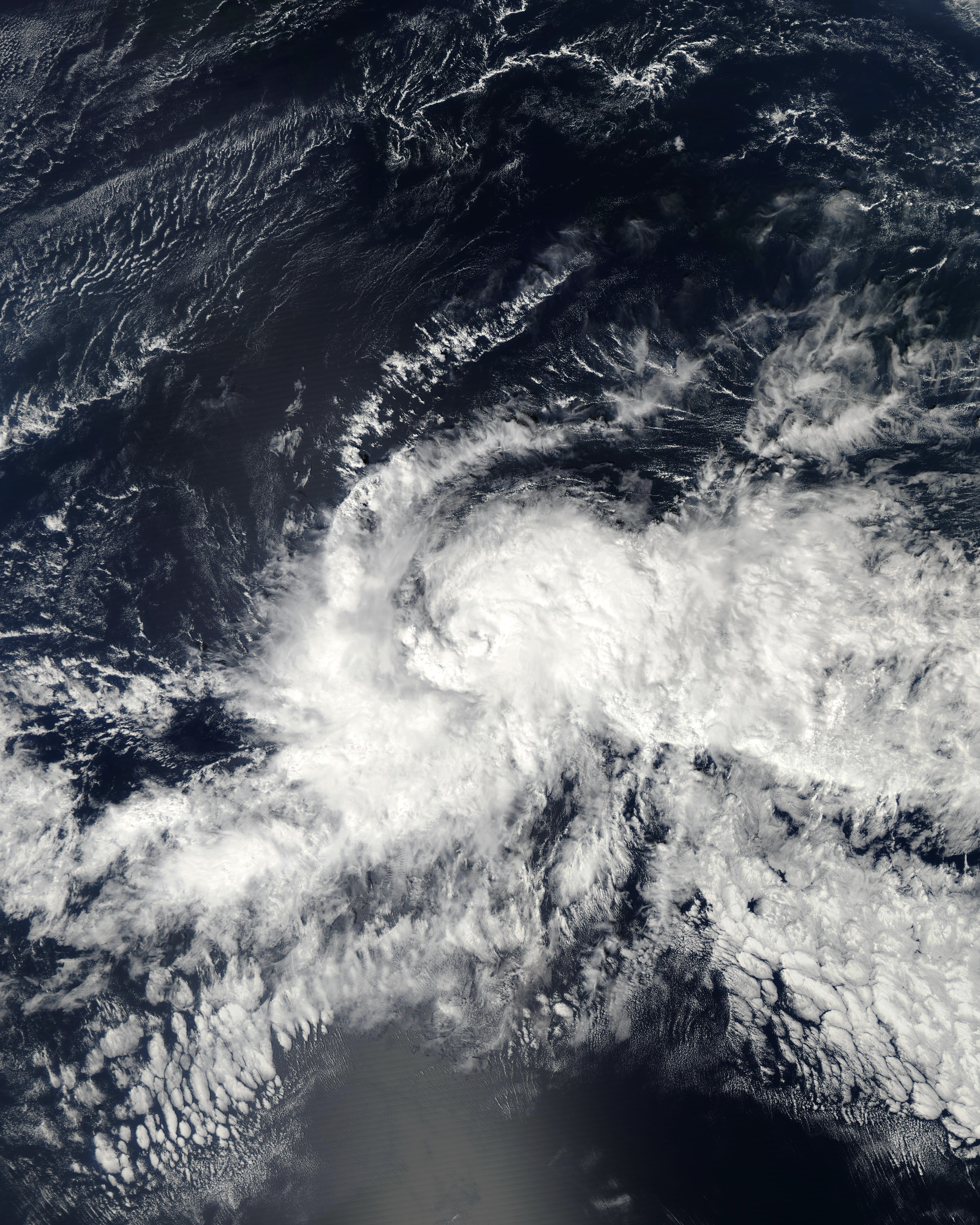 Tropical Storm Polo (2008) as seen from Aqua Satellite on 2008-11-02